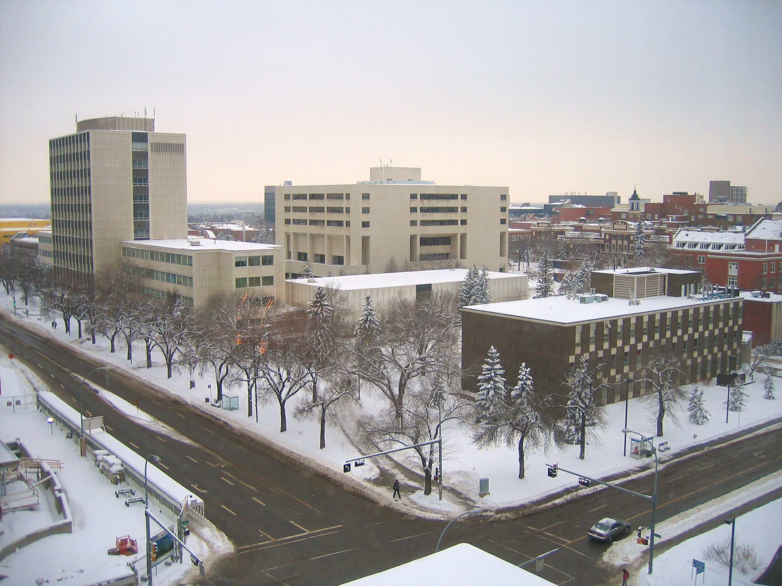 Snow covered campus at University of Alberta, Edmonton, Canada.